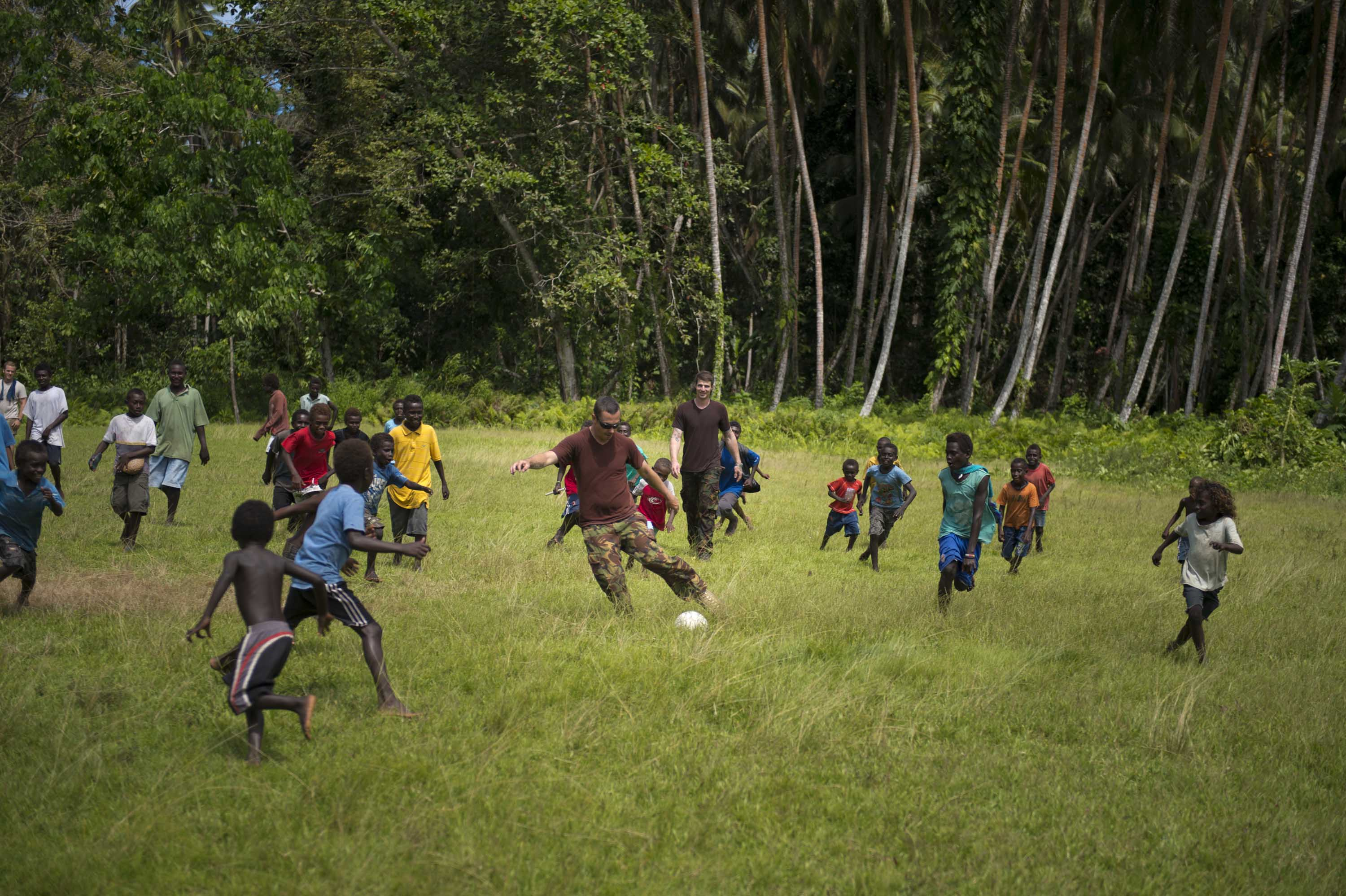 VELLA LA VELLA, Solomon Island (Aug. 9, 2013) – New Zealand Army Sgt. Darryn Williams plays soccer with Solomon Island children during Pacific Partnership 2013. Working at the invitation of each host nation, U.S. Navy forces are joined by non-governmental organizations (NGOs) and regional partners that include Australia, Canada, Colombia, France, Japan, Malaysia, Singapore, South Korea, and New Zealand to improve maritime security, conduct humanitarian assistance and strengthen disaster-response preparedness. (U.S. Navy photo by Mass Communication Specialist 2nd Class Carlos M. Vazquez II/Released)